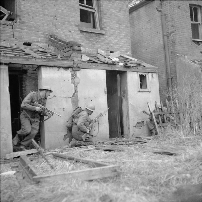 The British Army in the United Kingdom 1939-45 Infantry clearing buildings at 47th Division School of Battle Drill at Lymington near Southampton, 11 March 1942. Bomb-damaged houses provided a realistic environment for street fighting training.